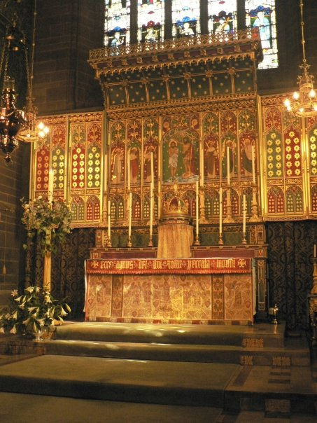 St John the Baptist Church, Tuebrook, Liverpool,High Altar with triptych designed by architect G.F.Bodley